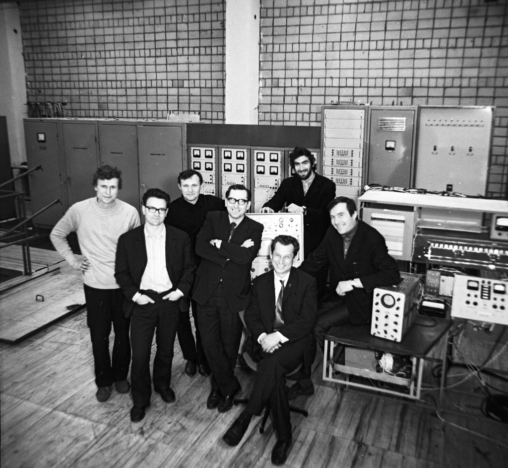 “Kurchatov Institute for nuclear energy”. Staff of Kurchatov Institute for nuclear energy who took part in the project on development of magnetic field with strength of 250 thousand oersted. From left: Victor Tatarinov, Vladimir Fedorov, Anatoly Kulyamzin, Valentin Lunin, Pyotr Cheremnykh, Grigory Paikin, Yevgeny Lysenko.